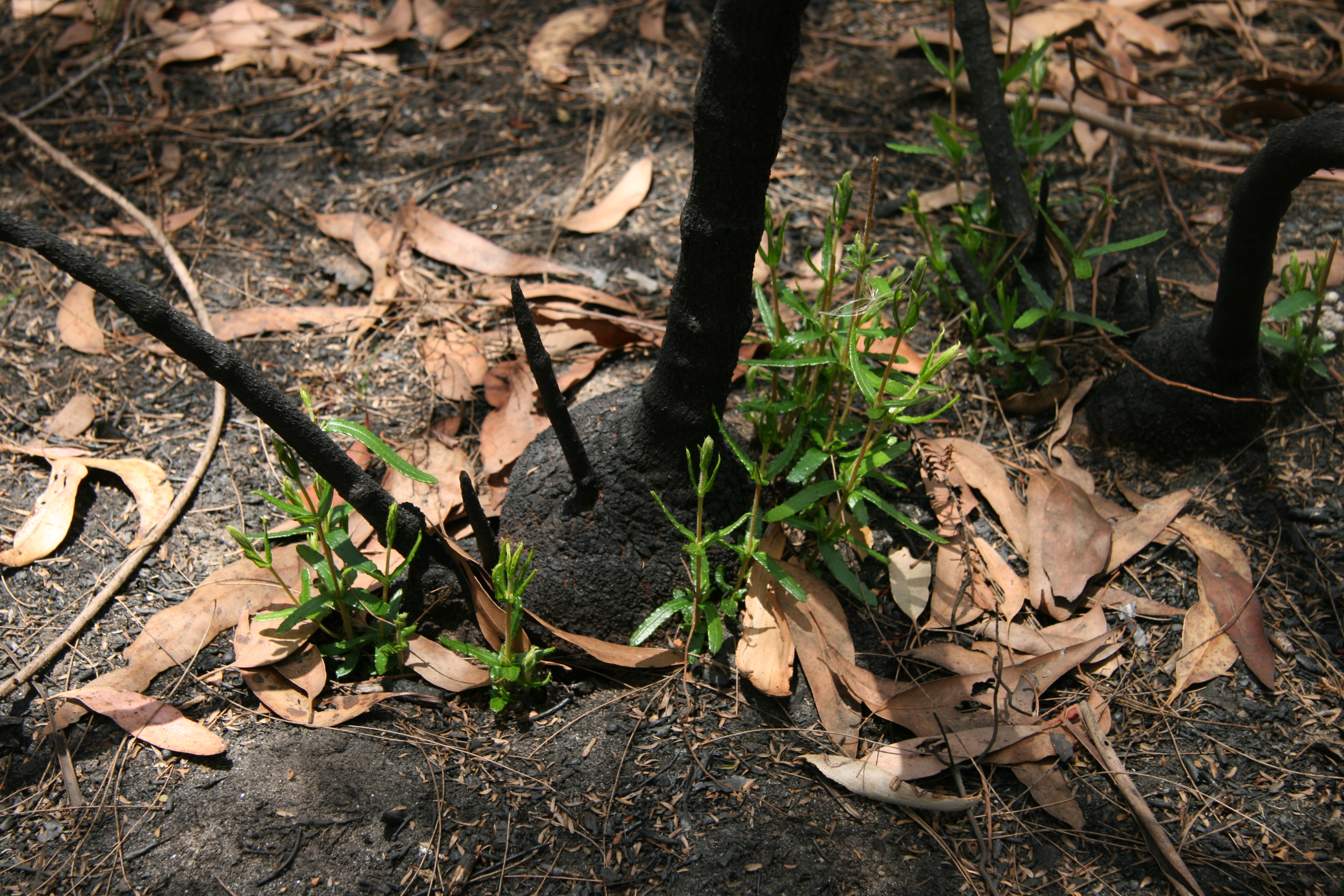 Lambertia formosa, reshooting from lignotuber after fire, Lane Cove National Park